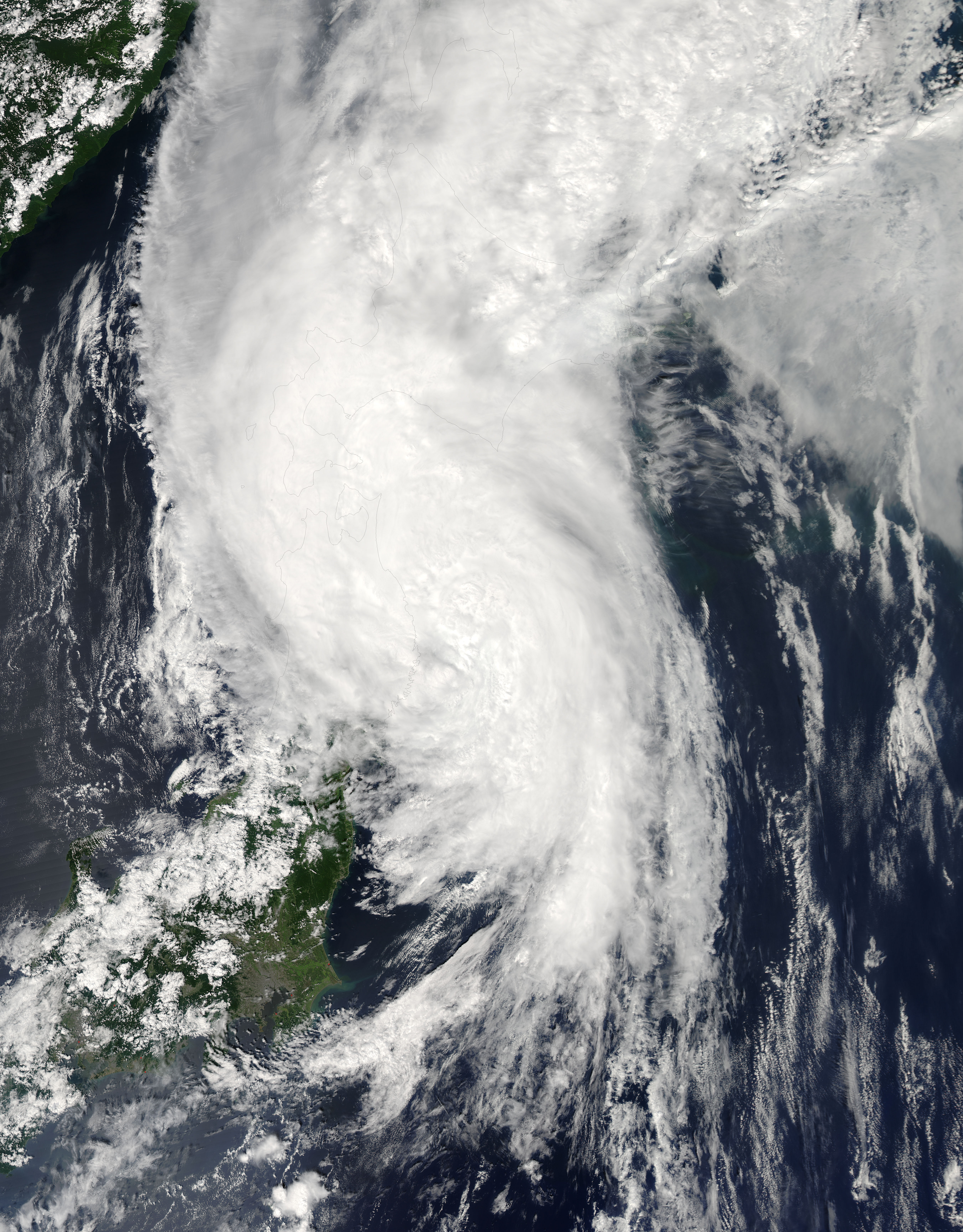 Tropical Storm Chanthu (09W) over Japan